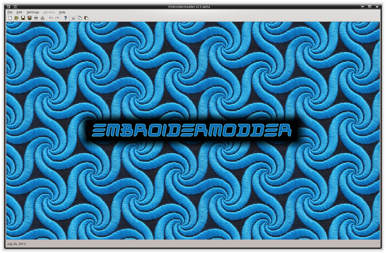 The starting screen shown in Embroidermodder 2.